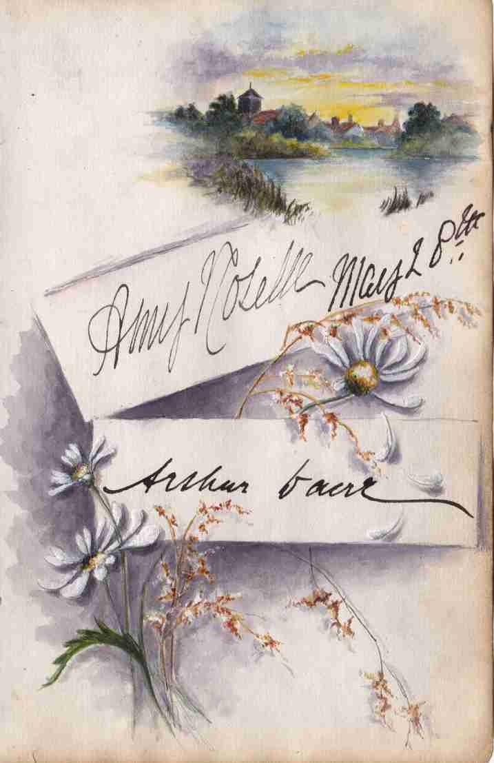 The autographs of actors Amy Roselle (1852-1895) & Arthur Dacre (1850-1895) from an autograph album decorated by May Ostlere.